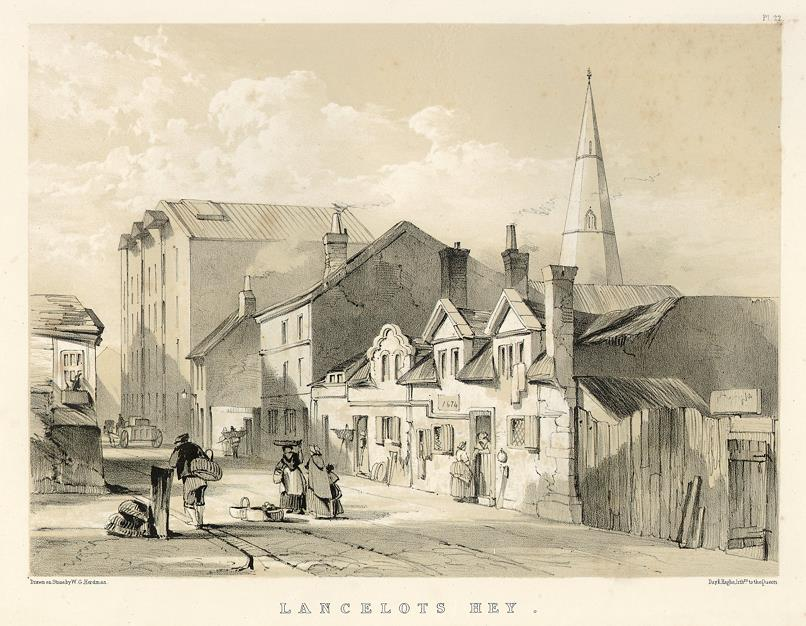 "Lancelots Hey" (Liverpool) tinted stone lithograph, published in Pictorial Relics of Ancient Liverpool, 1843. On thick paper, slight foxing. Size 26.5 x 21 cms including title, plus good margins.